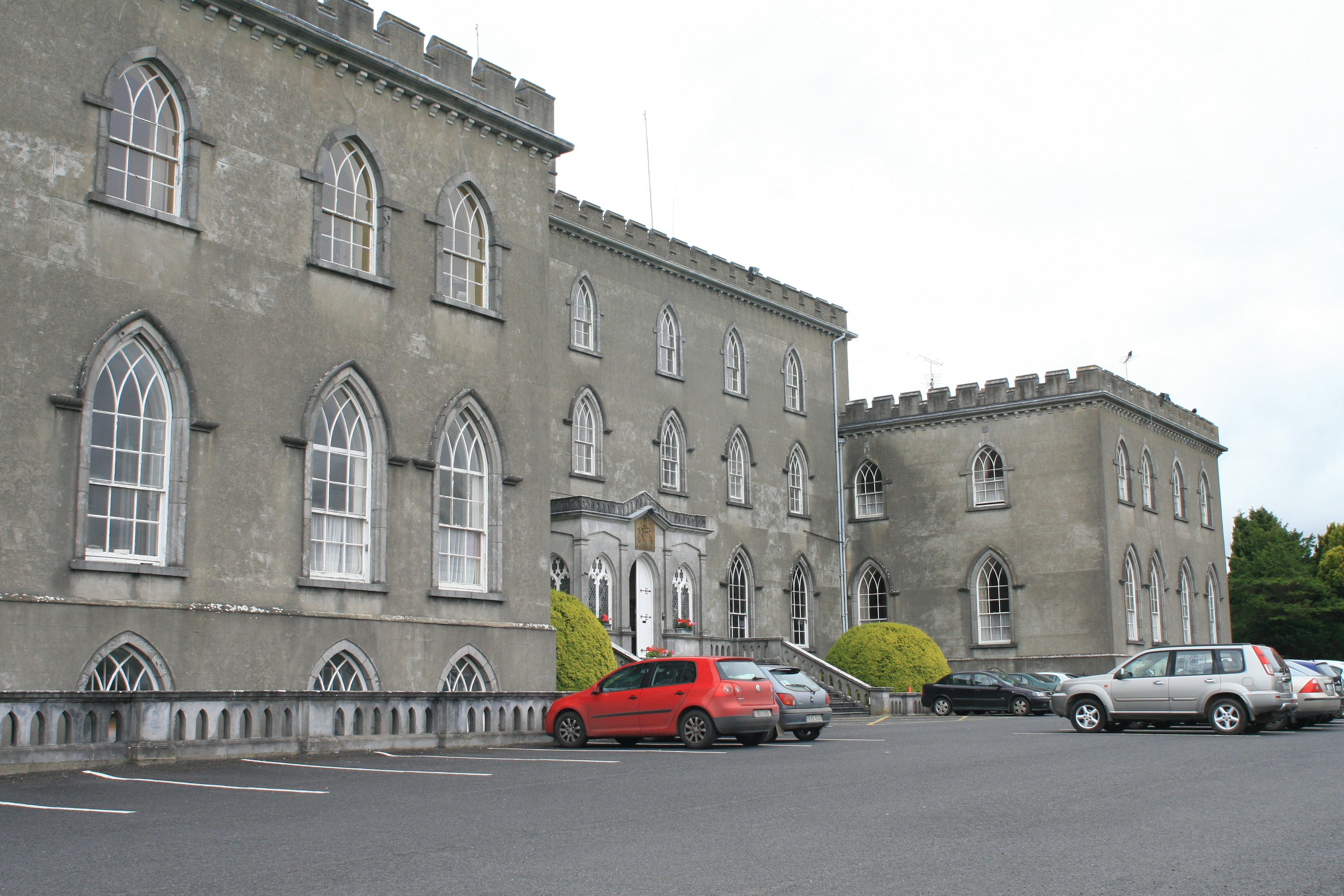 18th-century residential home of Moore Abbey, a foundation of the Sisters of Charity of Jesus and Mary.